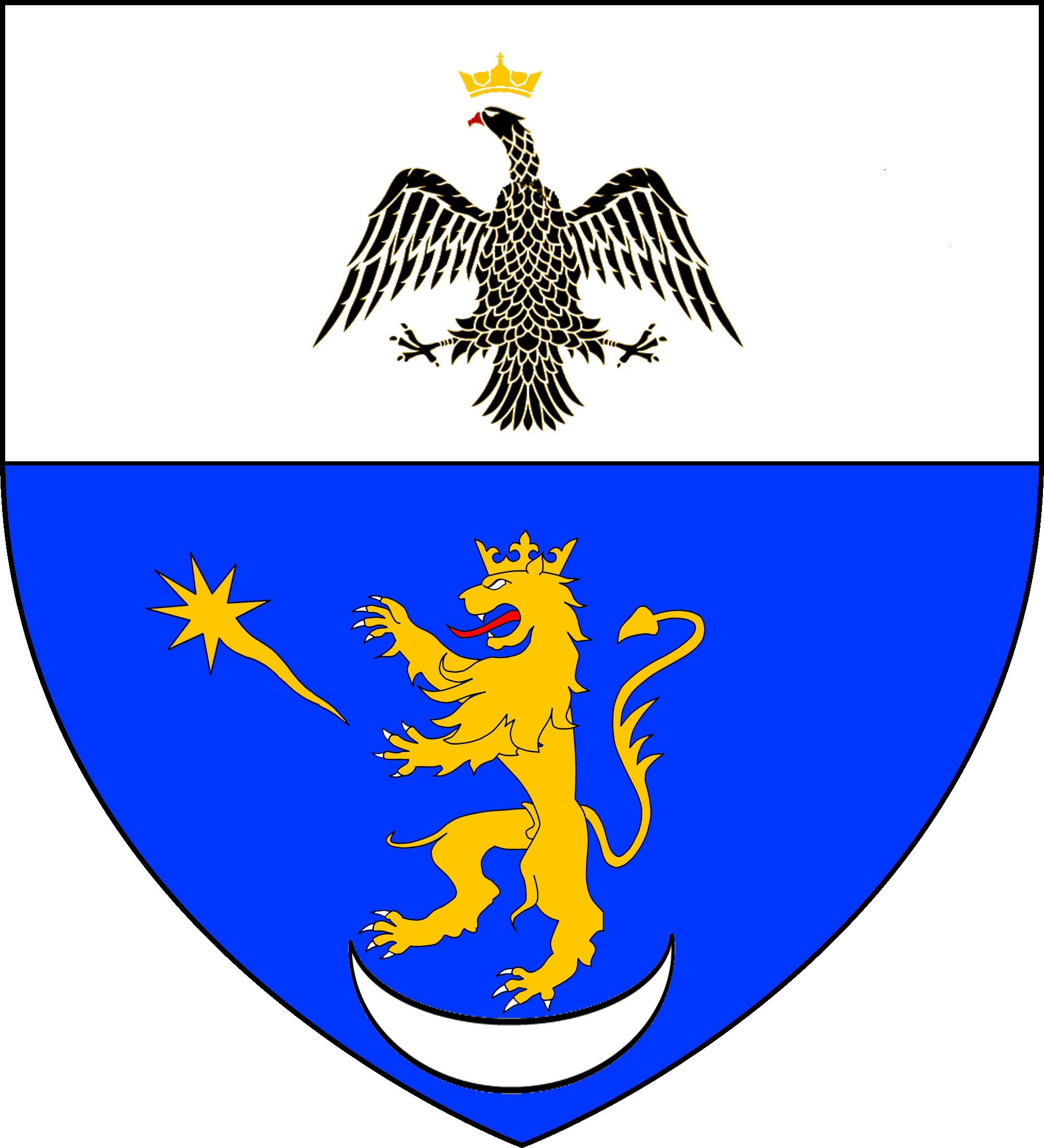 Escudo de armas de la casa Arduino de Sicilis (Stemma dei Arduino), barones de Gallidoro.